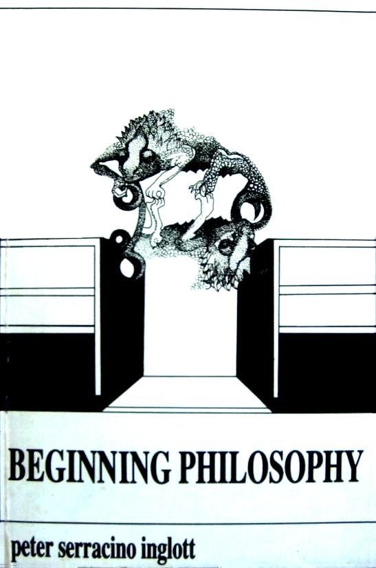 1987 frontispiece